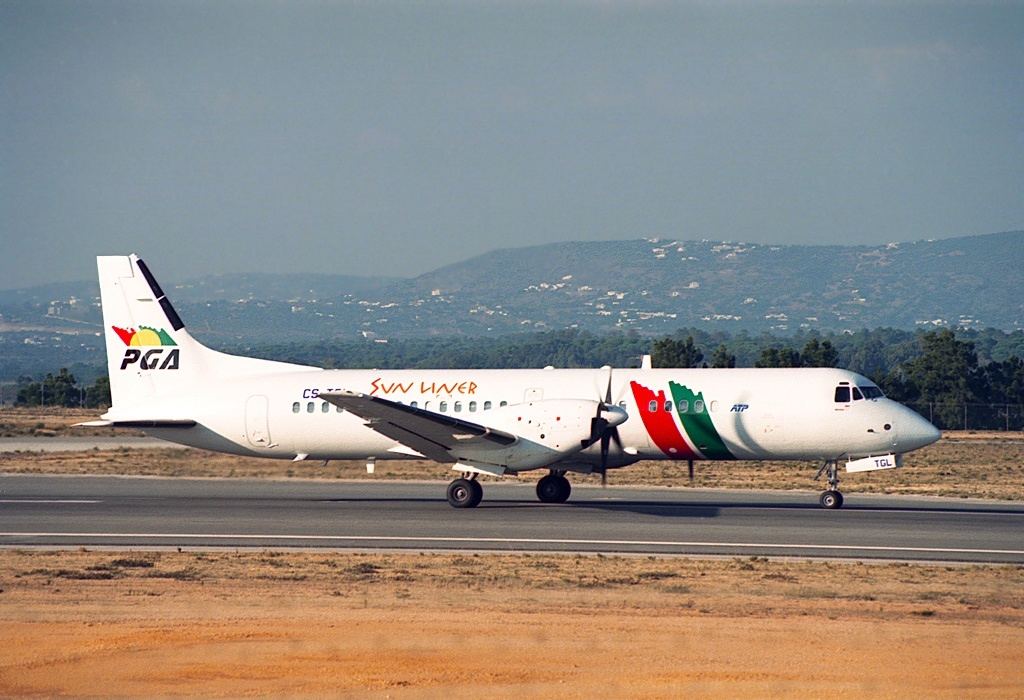 Sun Liner